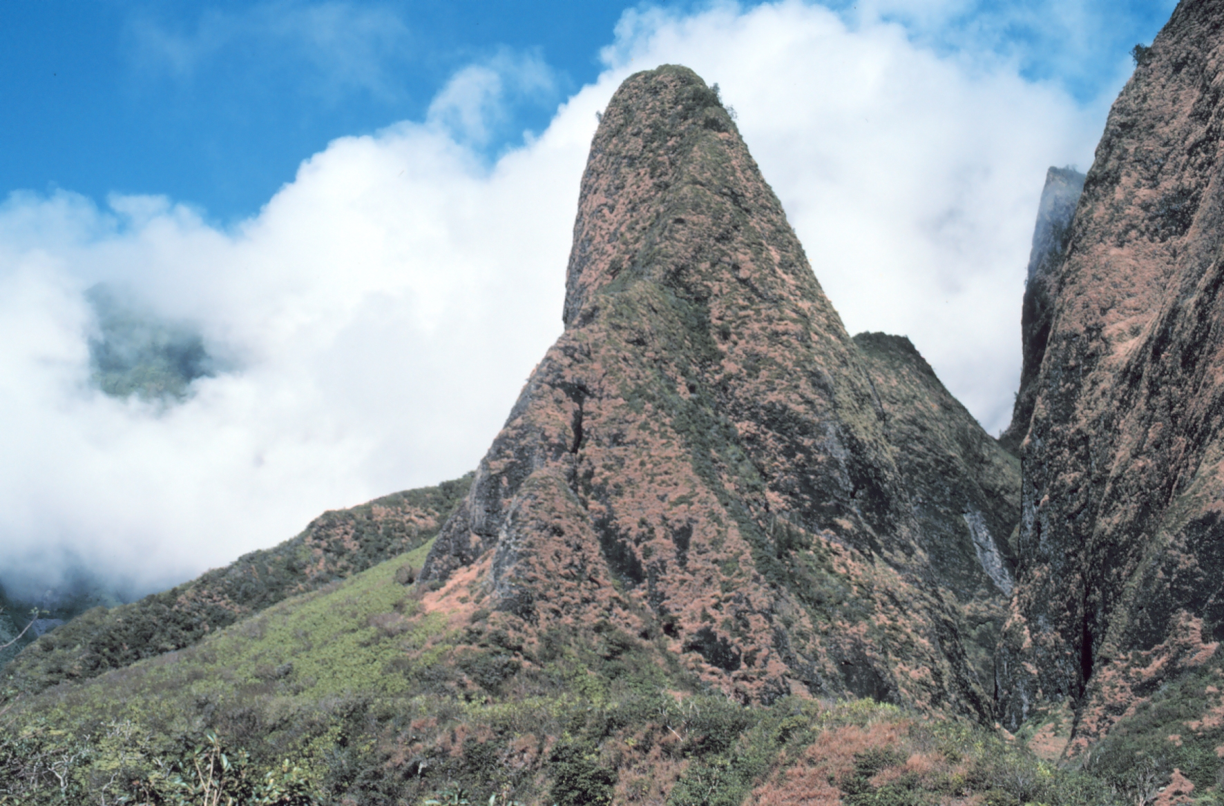 Iao Needle on Maui, Hawaii